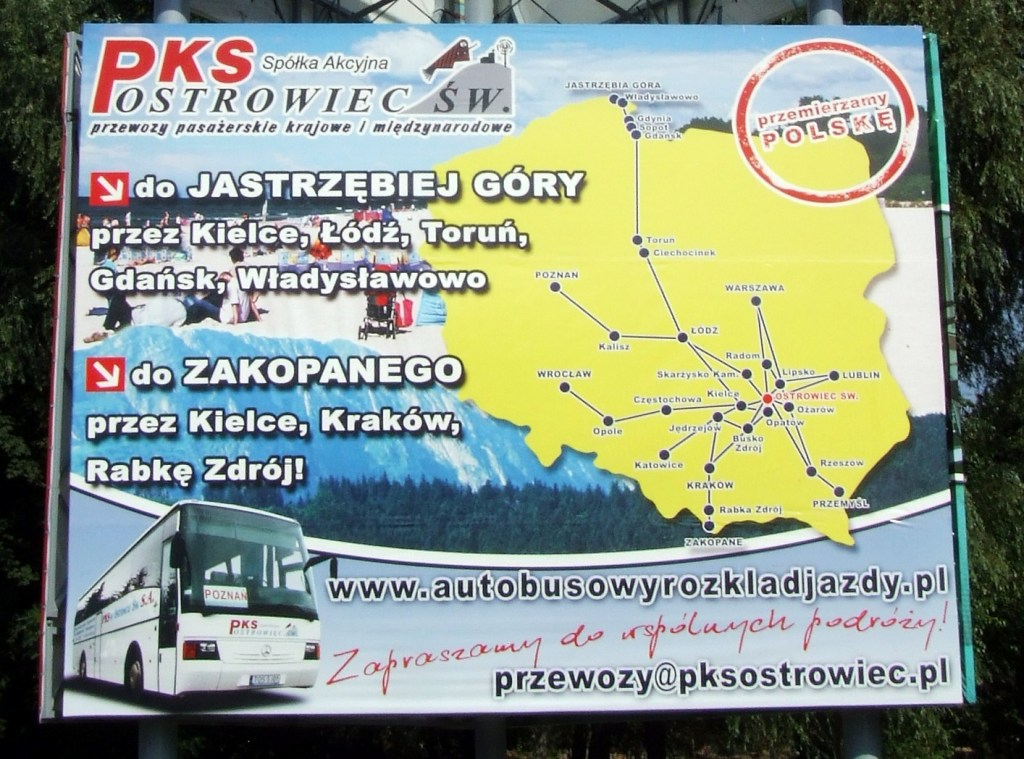 PKS Ostrowiec billboard showing PKS' routs.